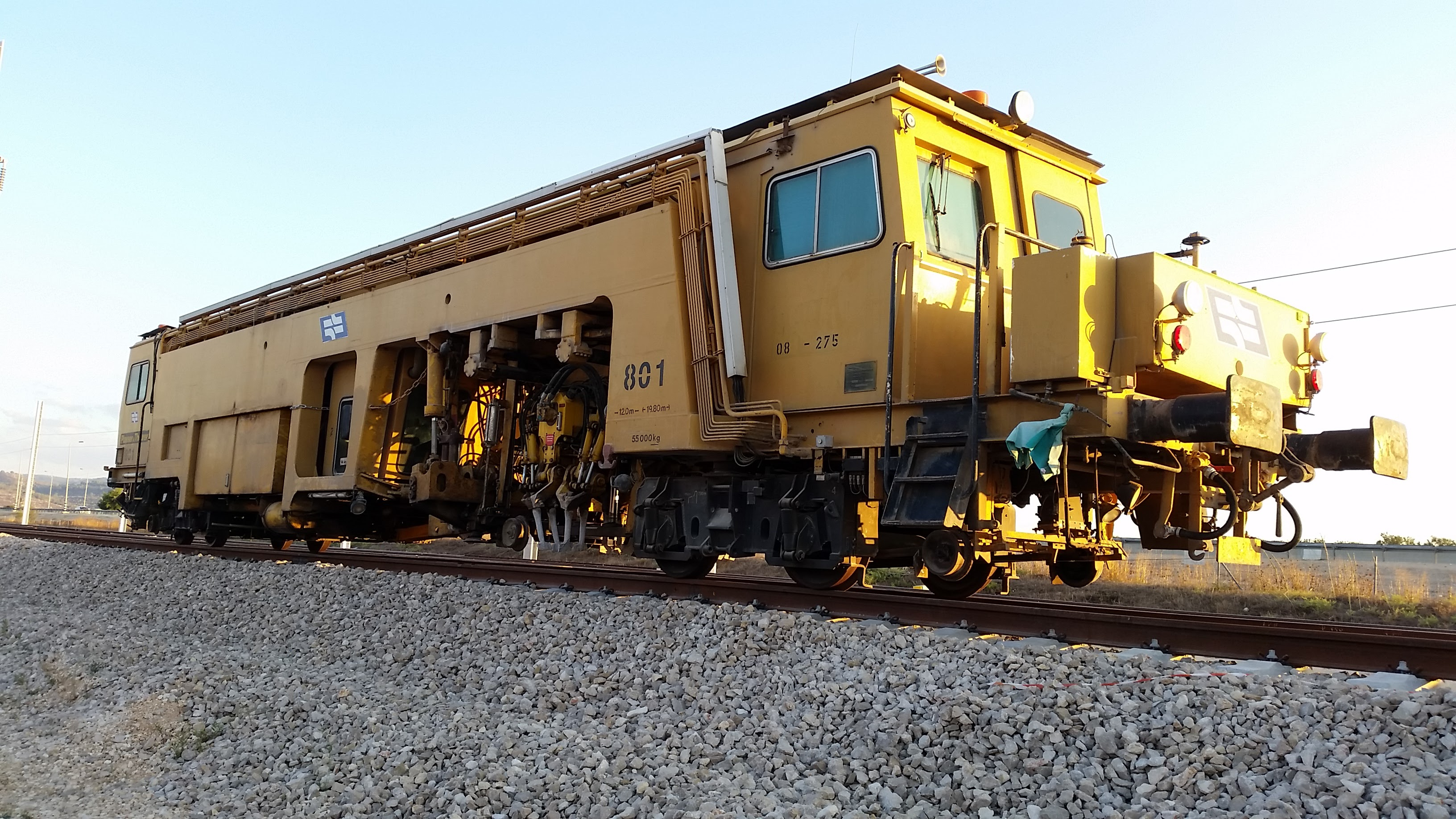 Tamping machine No 801 of Israel Railways Plasser & Theurer Unimat 08-275